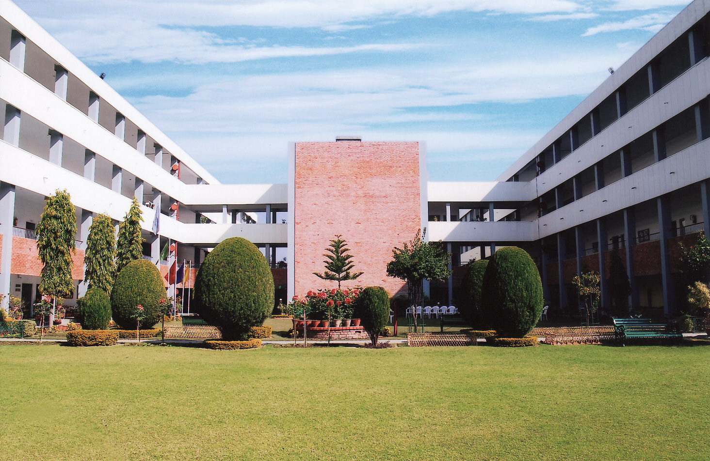 A panoramic view of the school